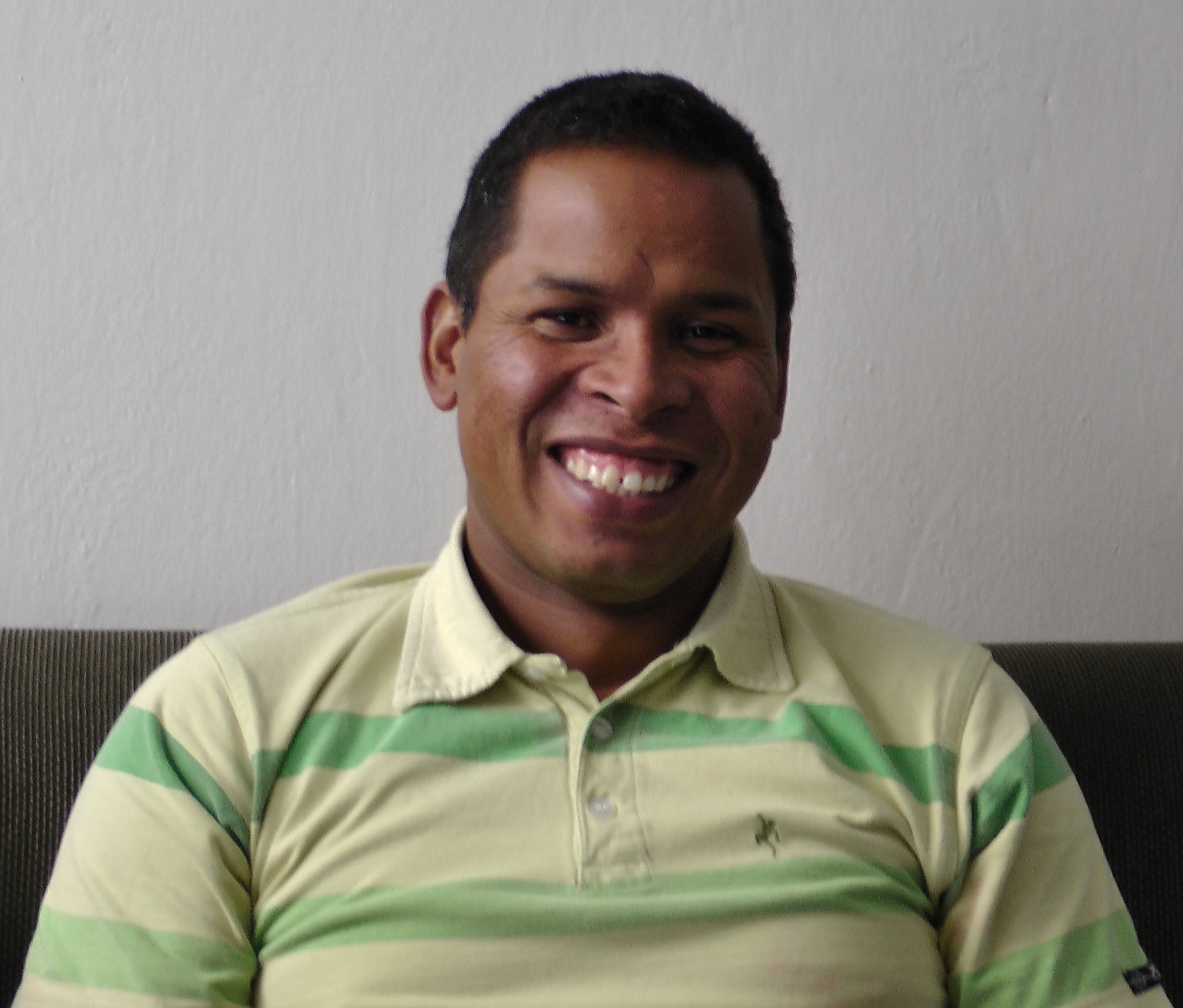 Gadiel Sanchez Rivera, 15 October 2013, Lima, Peru